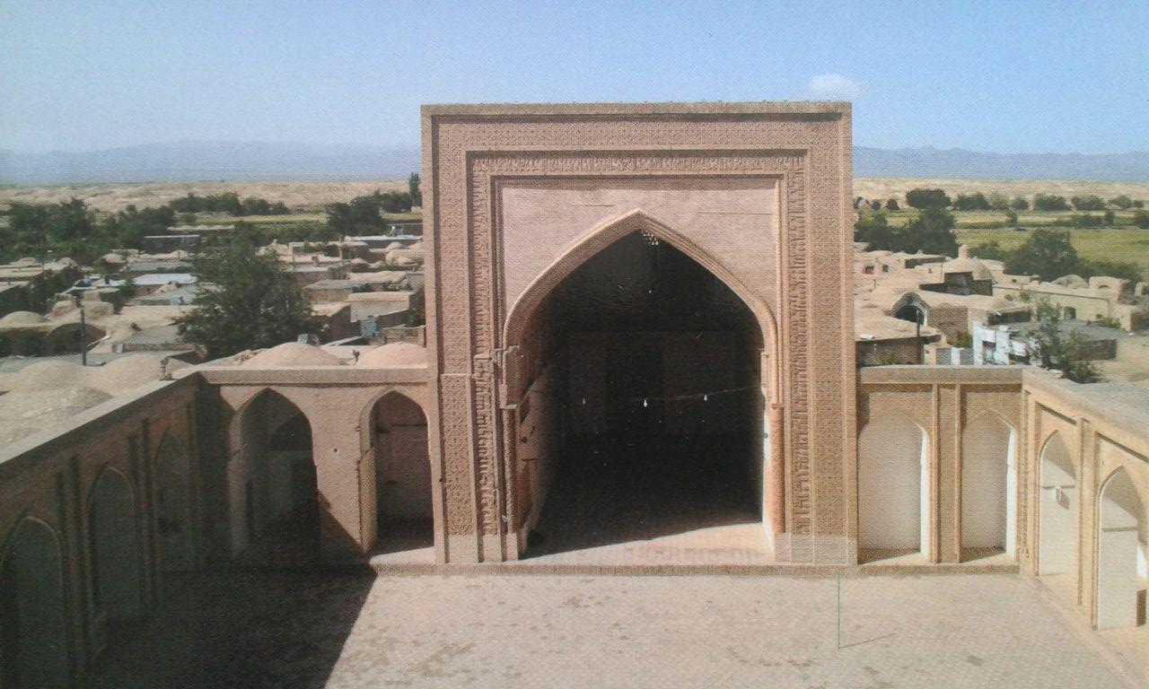 Mosque of Qasbah city of Gonabad